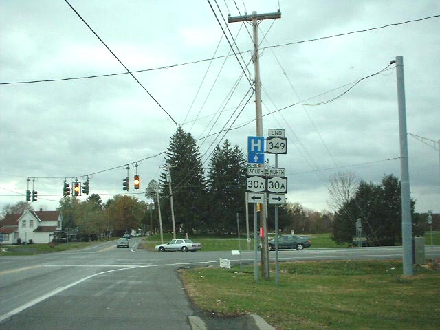 Ending terminus of New York State Route 349 in Johnstown.